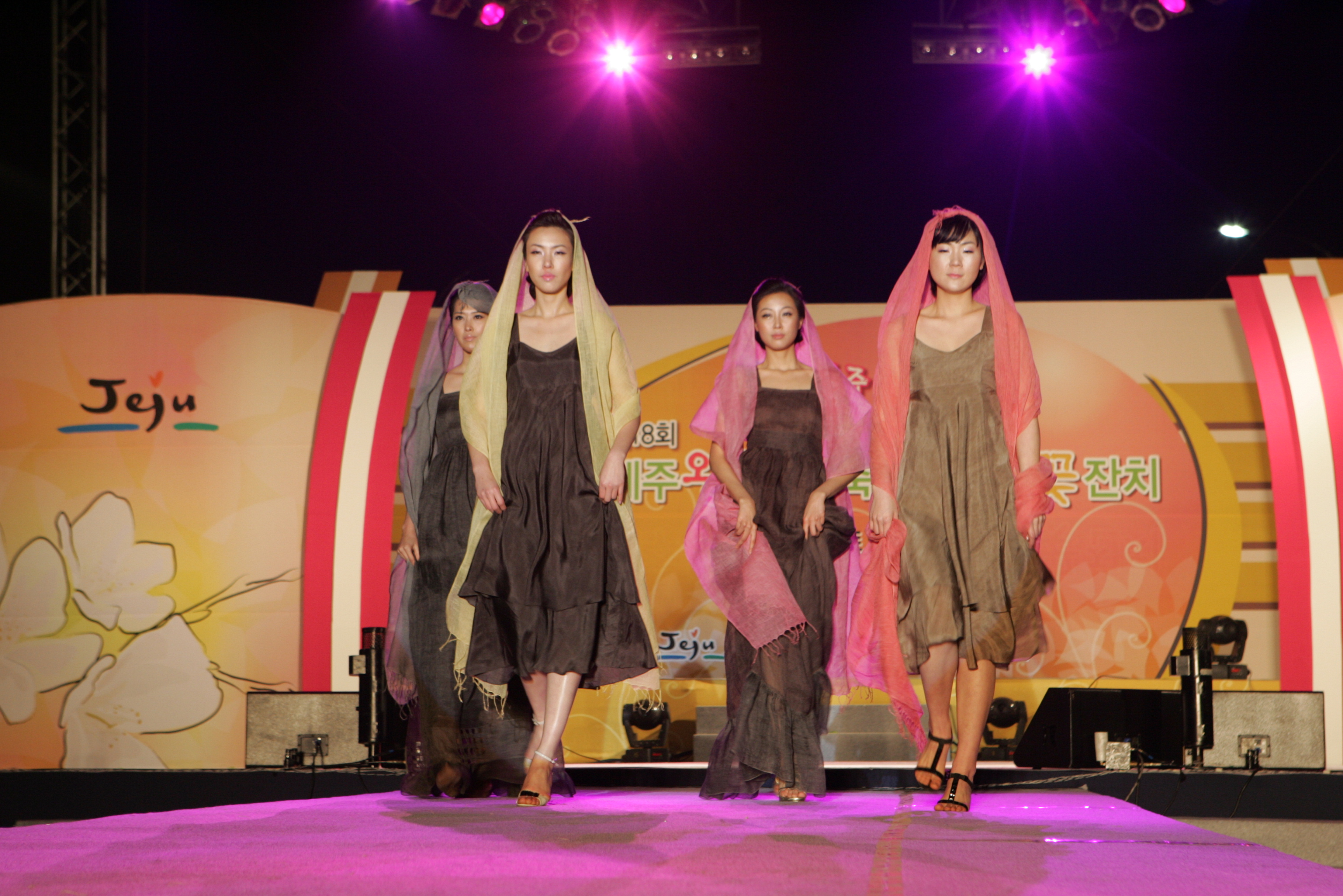 Period: Mar. 26 - 28, 2010 (3 days) Place: Jeju Citizen Welfare Town area, Jeju-do a wide array of events will be held: street performances, parades, fusion Korean classical music, youth festivals, and the “cherry” on top, fireworks!